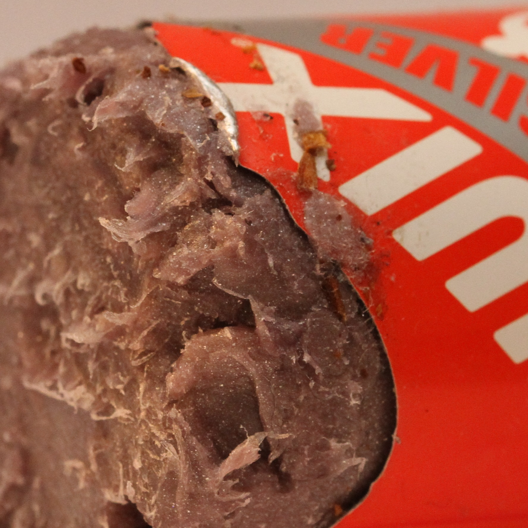 Grip wax for skies